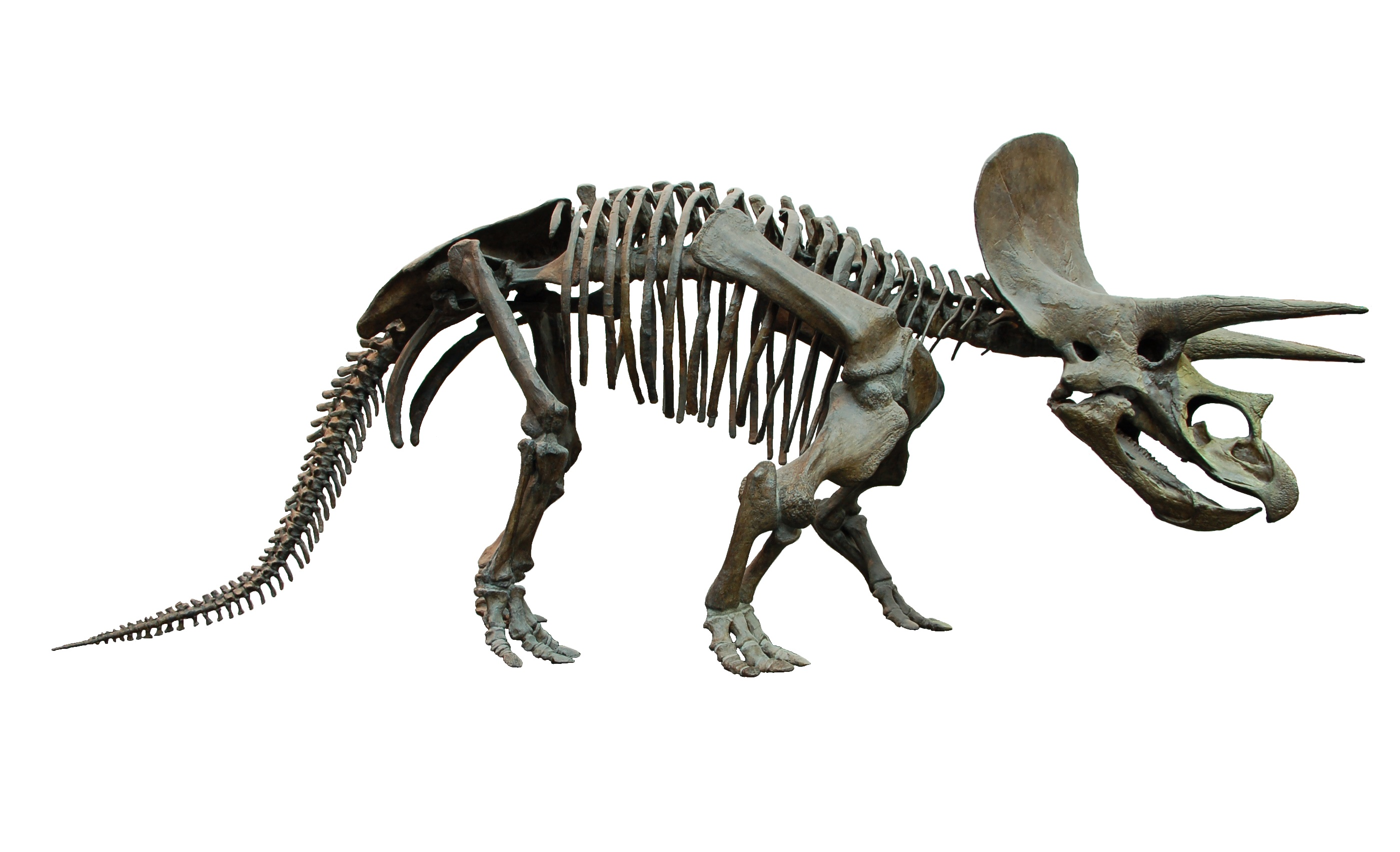 Reconstruction of a Triceratops skeleton in the Senckenberg Museum in Frankfurt am Main, assembled from fragments of different skeletons